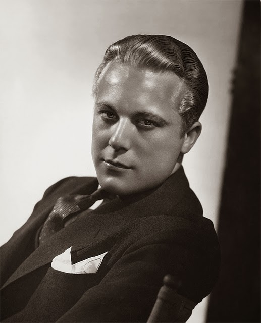 Studio portrait of Gene Raymond c. 1935